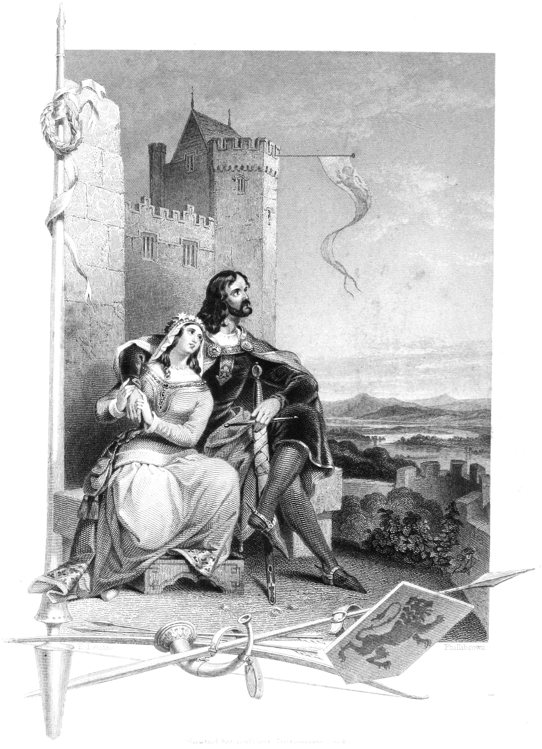 Harry Hotspur and Kate, engraved from a painting by Emanuel Leutze